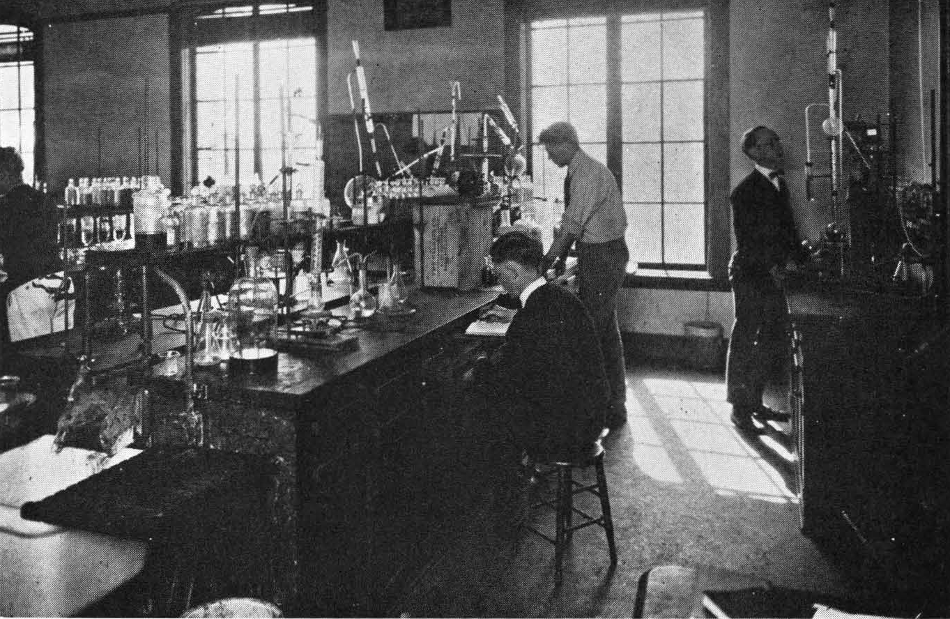 Chemical laboratory at the California Institute of Technology in 1923